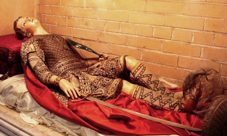 The statue of San Vincenzo (reclining) located in NYC. October, 2008 Bob Rubertone